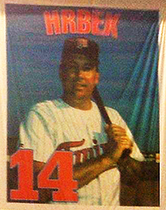 Kent Hrbek, number 14 retired banner, hanging at the Hubert H. Humphrey Metrodome.